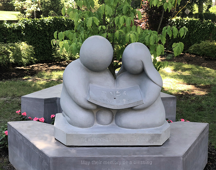 "Children reading a history book" for Holocaust Memorial Garden in "Ahavath Tofah" Englewood Synagogue, NJ, USA. Artist Ms. Yoshino said " I hope everyone in the world remembers we are all children who are learning how to create world peace together" at the dedication.